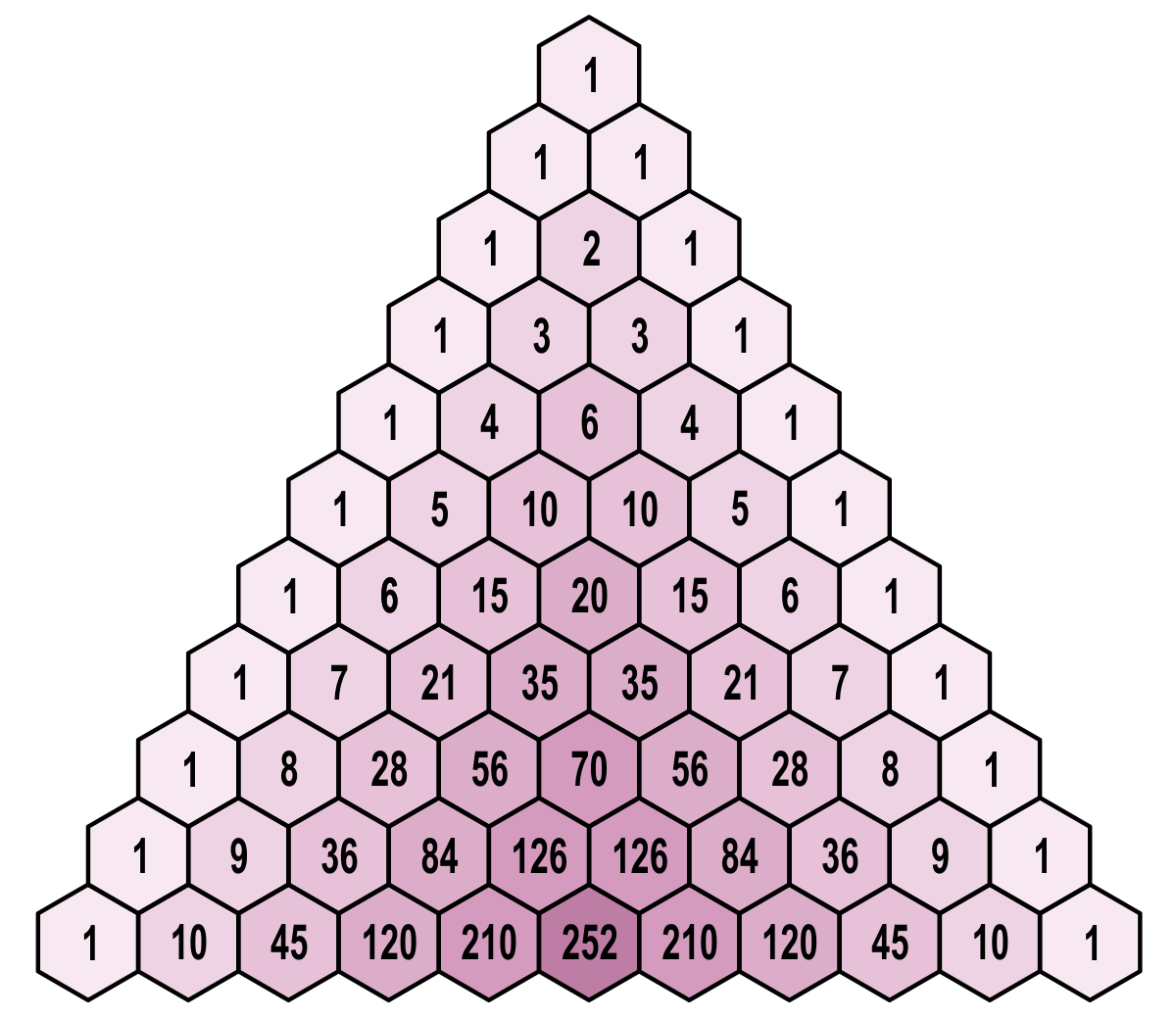 Pascal's Triangle